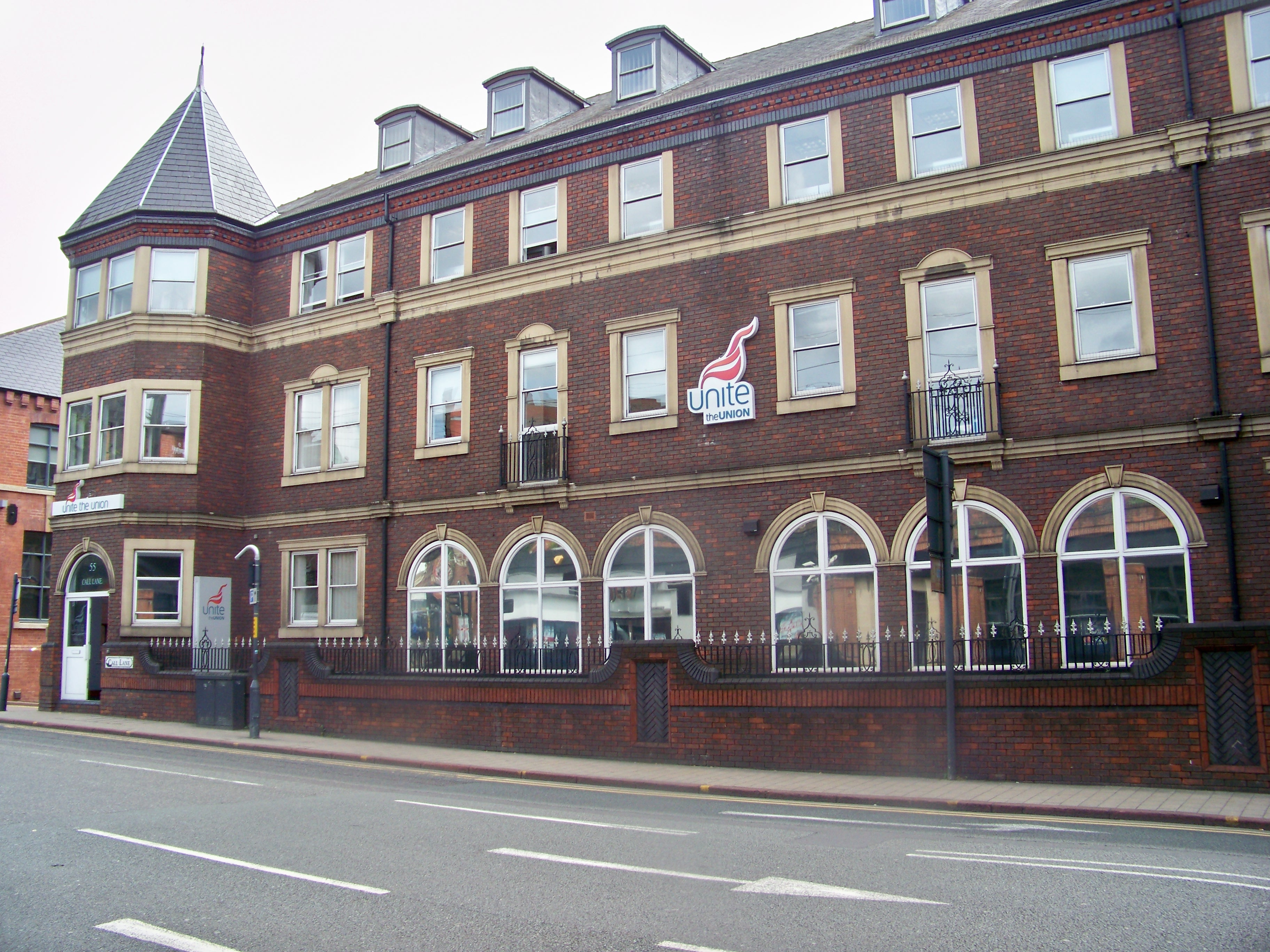 55 Call Lane in Leeds, West Yorkshire. These are offices for Unite the Union. Taken on the afternoon of Thursday the 24th of June 2010.